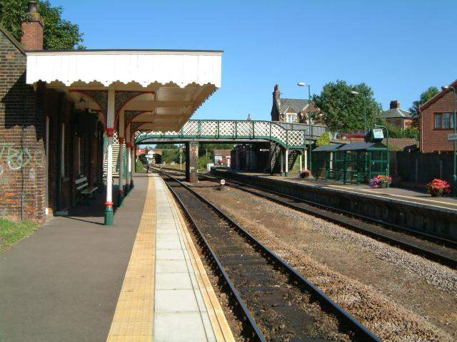 Reedham railway station in 2001 Photograph by AmosWolfe More information about Reedham at The Wherry Lines